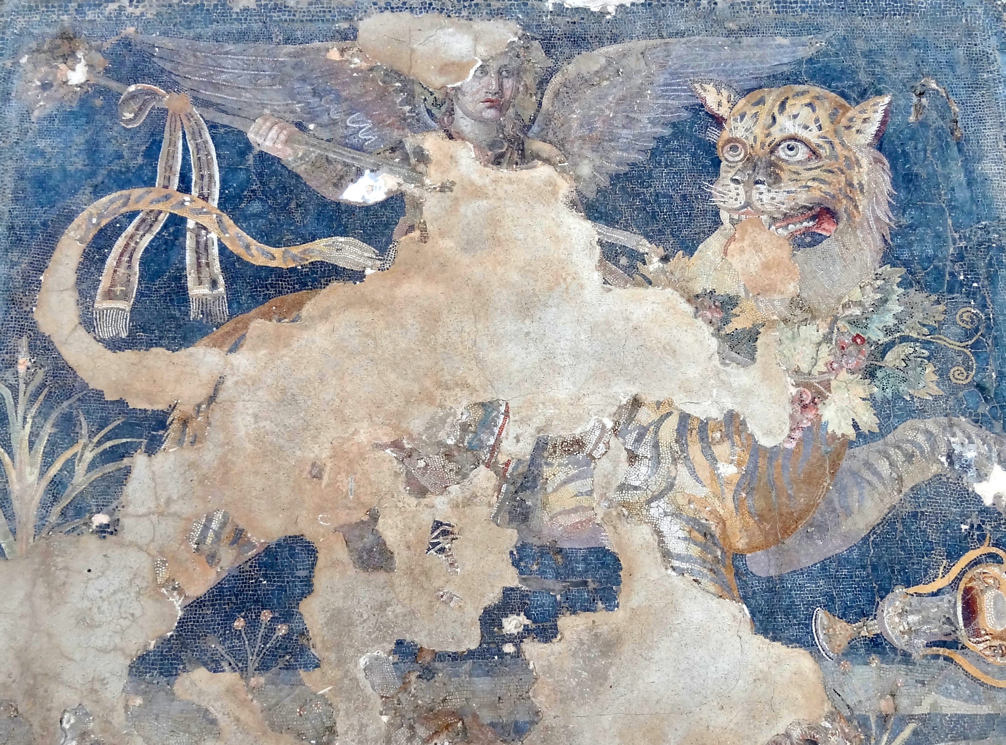 A Hellenistic Greek mosaic depicting the god Dionysos as a winged daimon riding on a tiger, from the House of Dionysos at Delos in the South Aegean region of Greece, late 2nd century BC; sources: * Brecoulaki, Hariclia (2016), “Greek Interior Decoration: Materials and Technology in the Art of Cosmesis and Display”, in Irby, Georgia L., editor, A Companion to Science, Technology, and Medicine in Ancient Greece and Rome (Blackwell Companions to the Ancient World), volume 1, Oxford: Wiley-Blackwell, ISBN 9781118372678, page 678 * Dunbabin, Katherine, M. D. (1999) Mosaics of the Greek and Roman World, Cambridge: Cambridge University Press, ISBN 0521002303, page 32